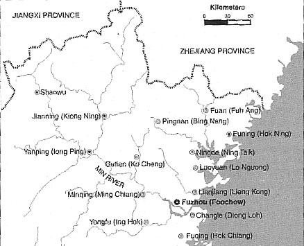 Location of Kucheng as shown in the northern Fujian